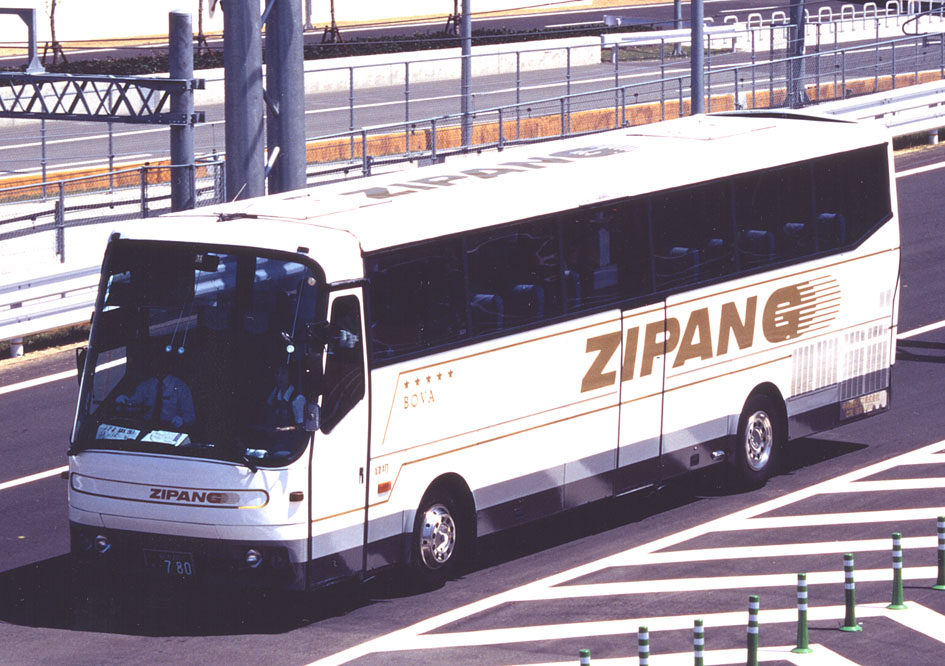 Bova Futura coach in Japan. Zipang operator.